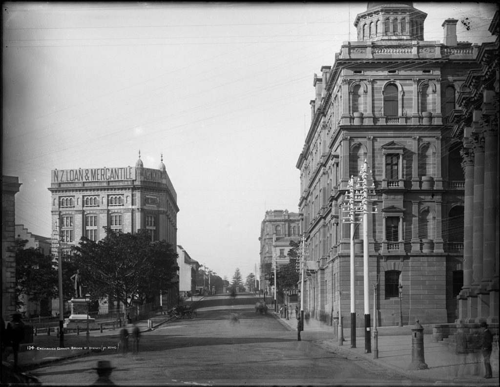 'Sydney City' Pictures from The Powerhouse Museum This files was posted to Flickr by The Powerhouse Museum (See their website for further information). Many thanks to the Powerhouse Museum for helping release this wonderful material. This tag does not indicate the copyright status of the attached work. A normal copyright tag is still required. See Commons:Licensing for more information.